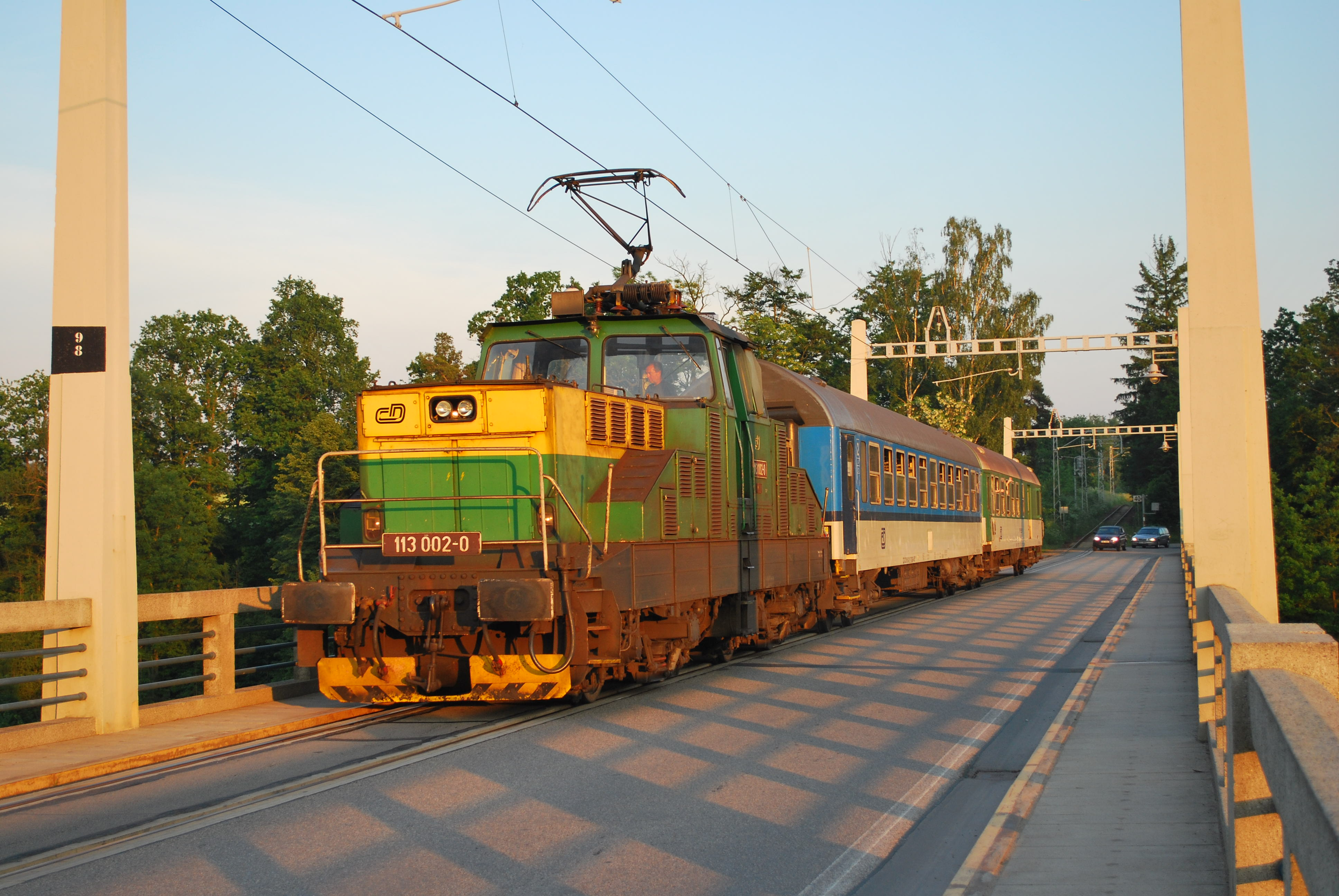 Bechyně